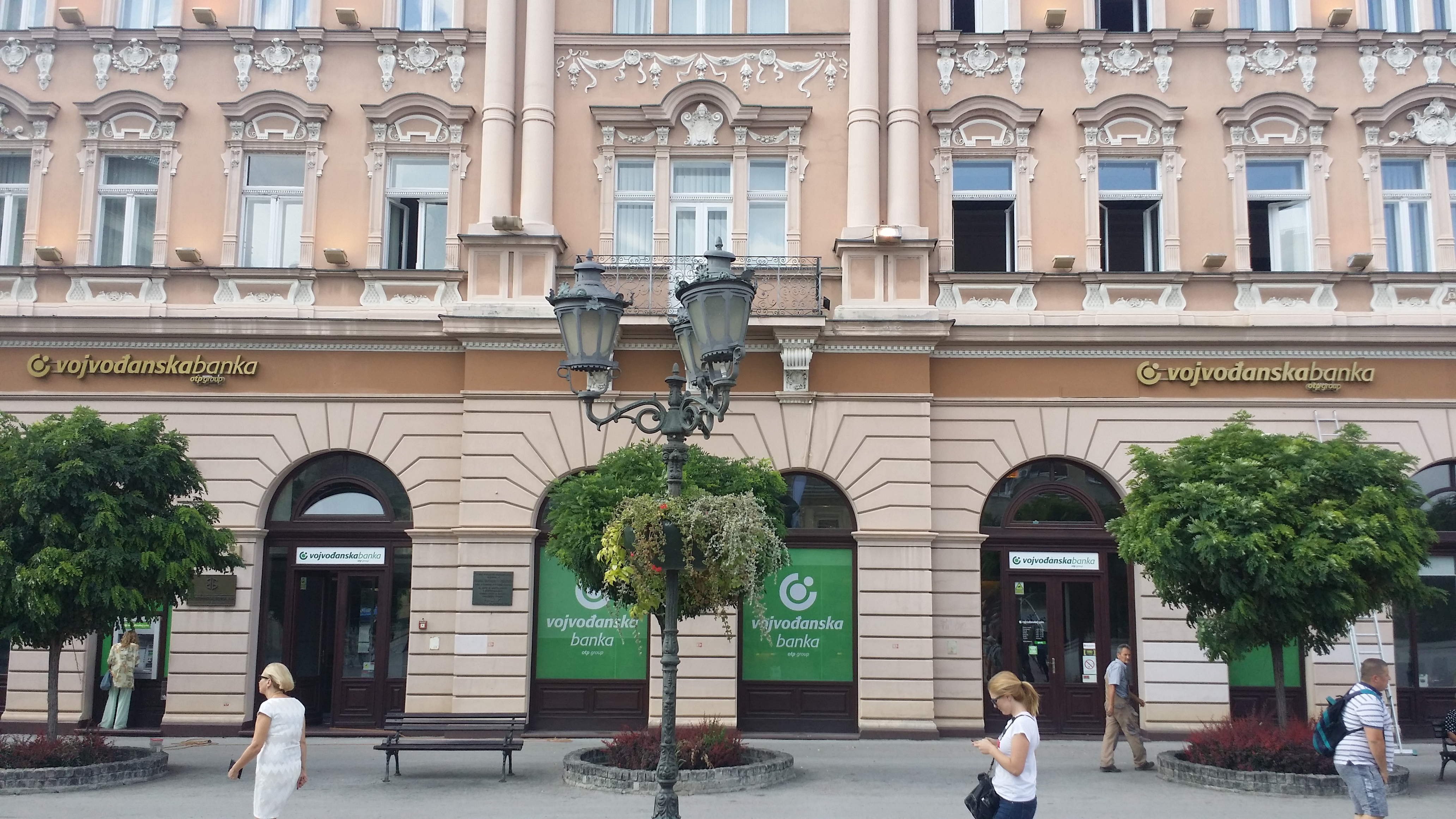 Novi Sad - Trg Slobode 5-7, Vojvodjanska banka building